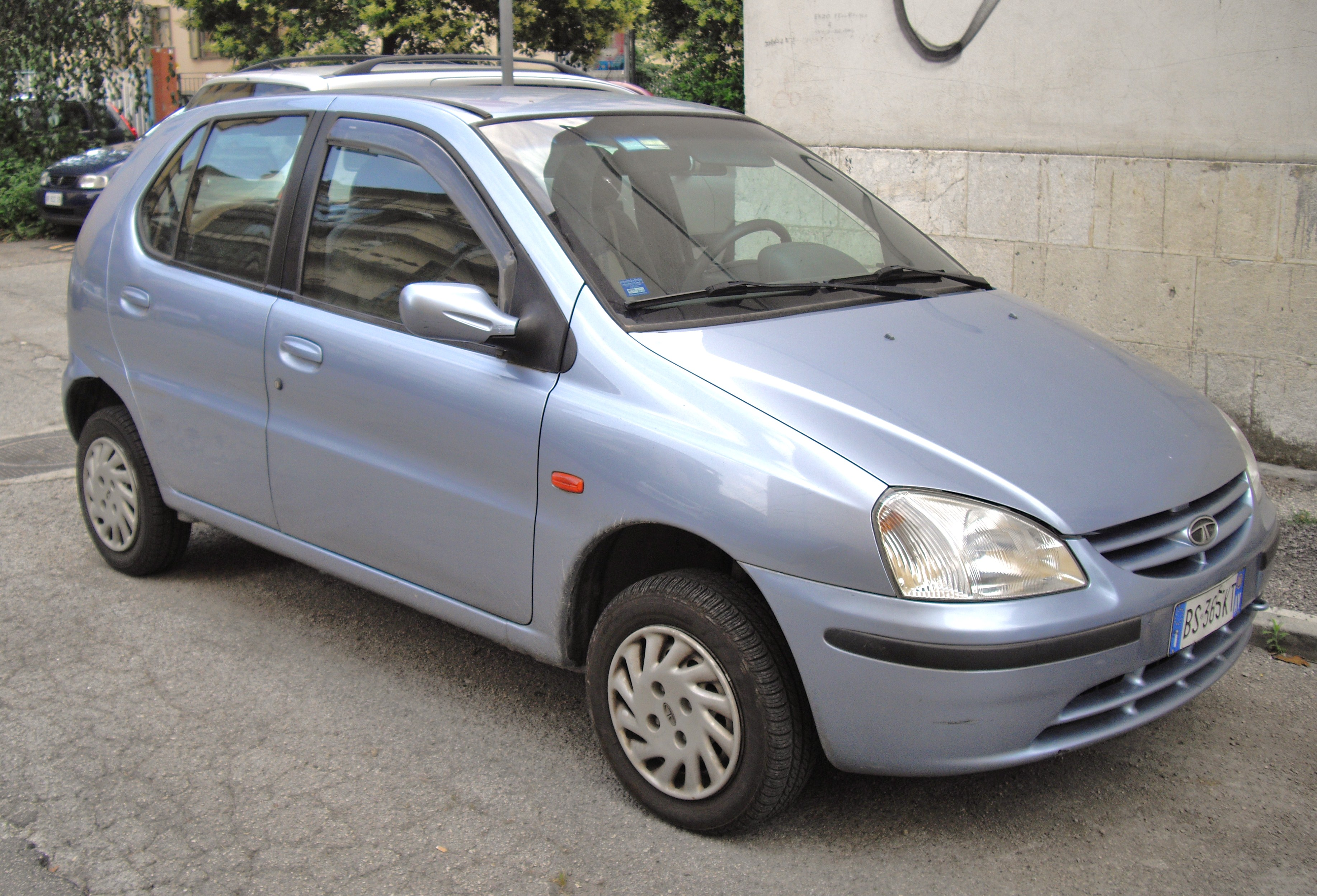 2000 Tata Indica